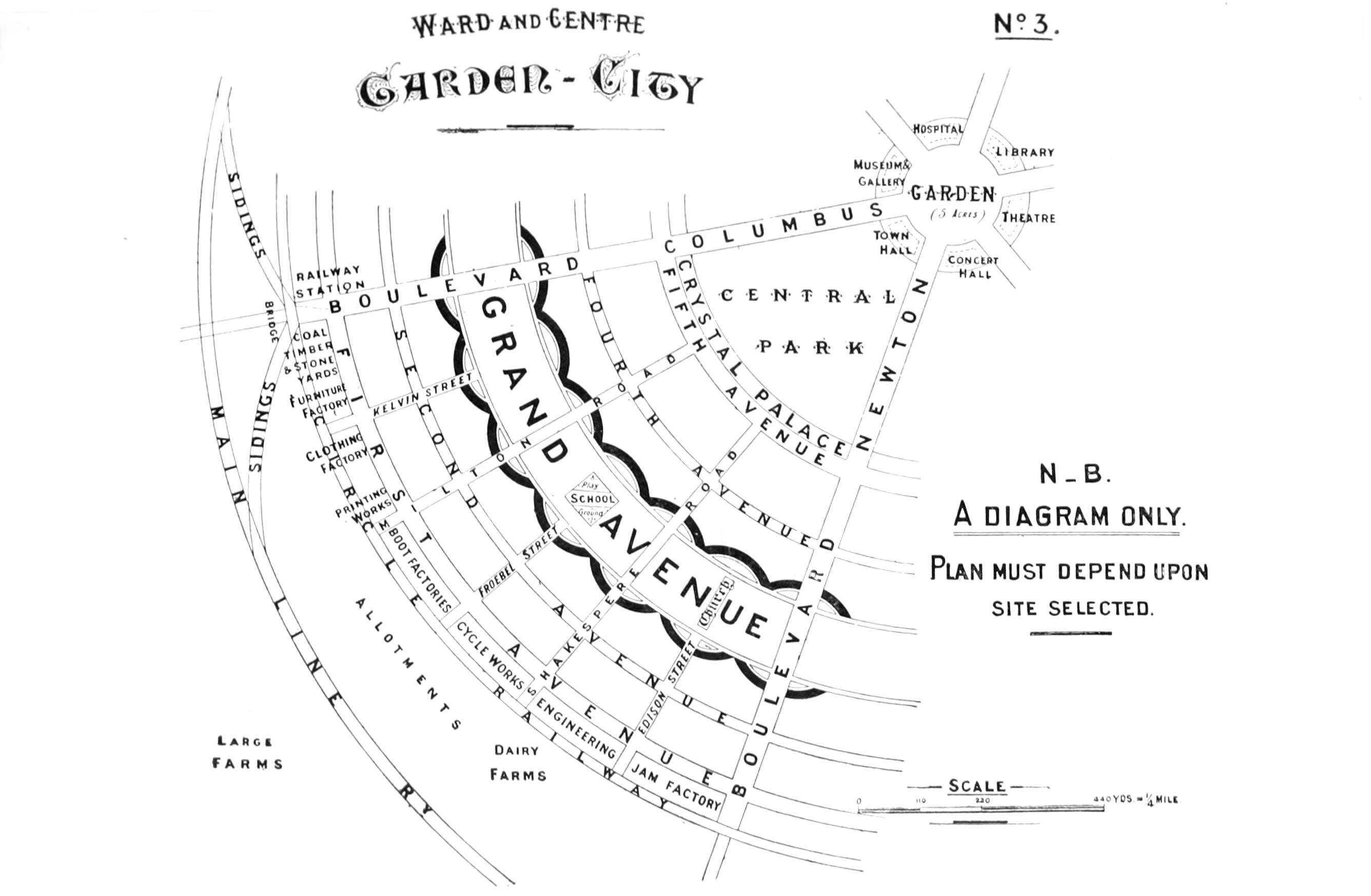 "Ward and Centre." Plate No. 3 from Ebenezer Howard's Garden Cities of Tomorrow.